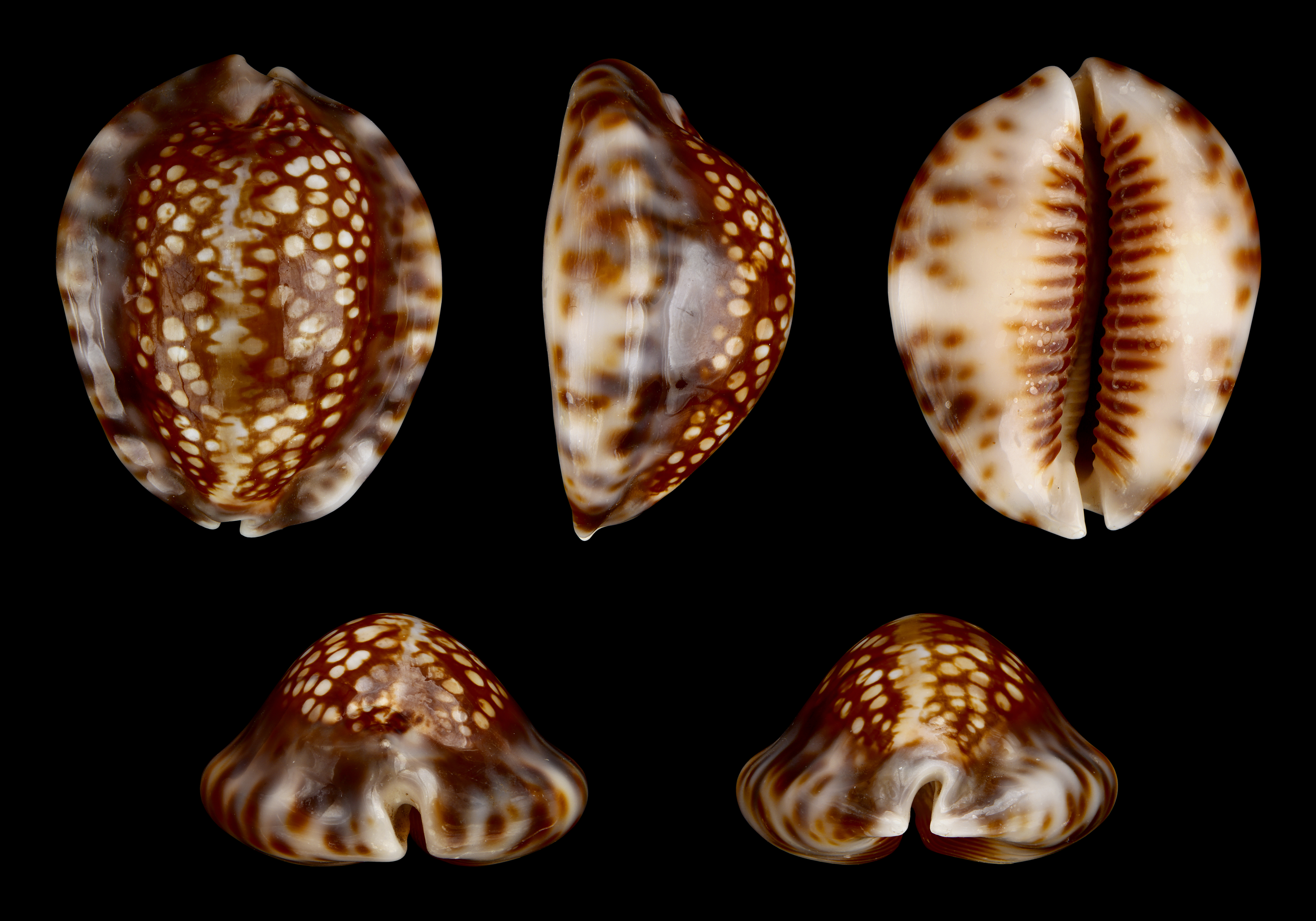 Depressed Cowry; Length 3.8 cm; Originating from Indoo-Westpacific; Shell of own collection, therefore not geocoded. Dorsal, lateral (right side), ventral, back, and front view.